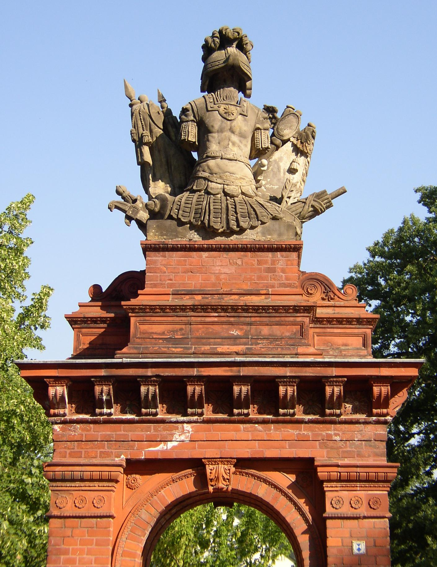 Trophy in Nauen-Groß Behnitz in Brandenburg, Germany